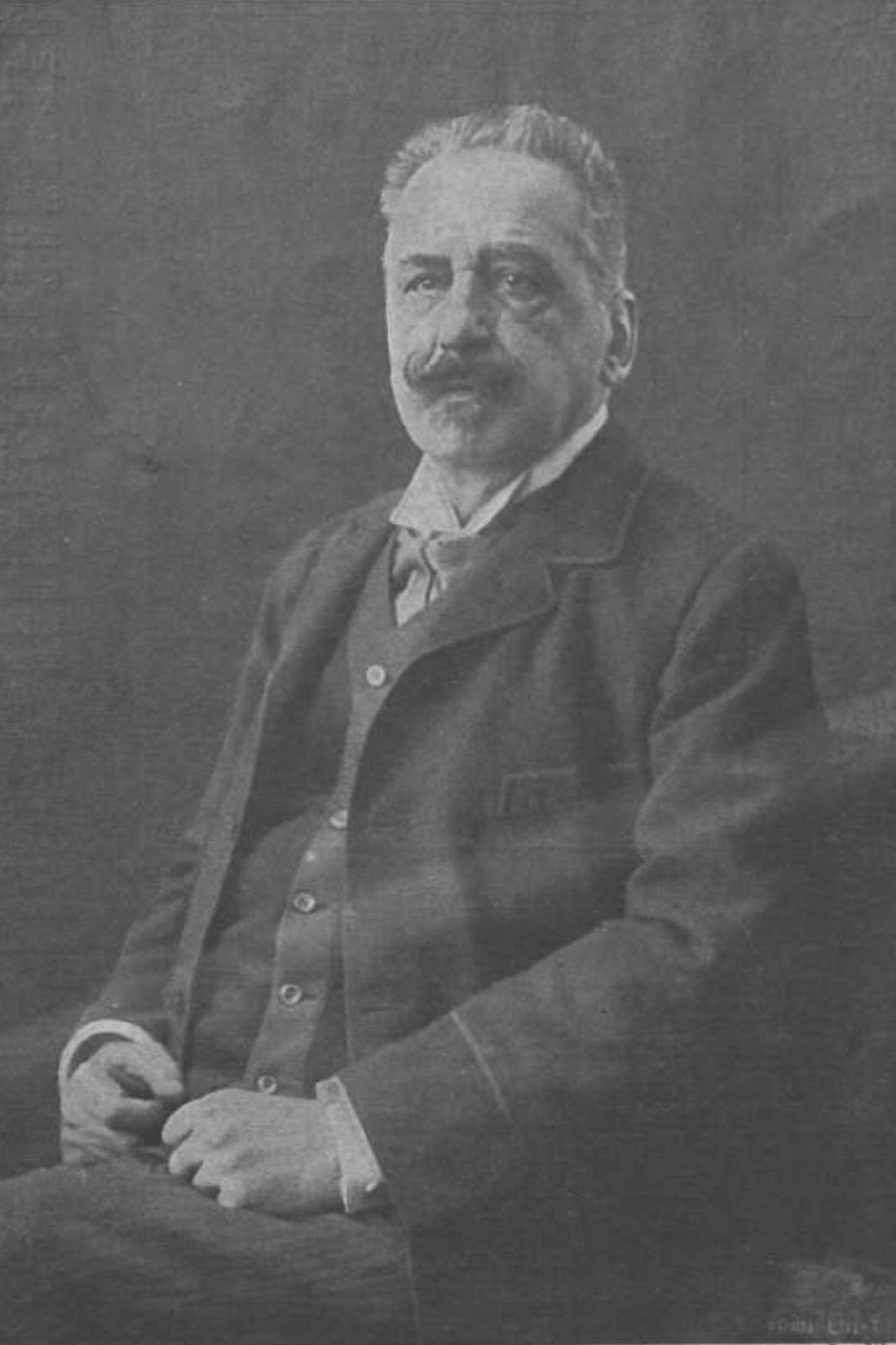 László Szőgyény-Marich, Jr. (1840–1916)